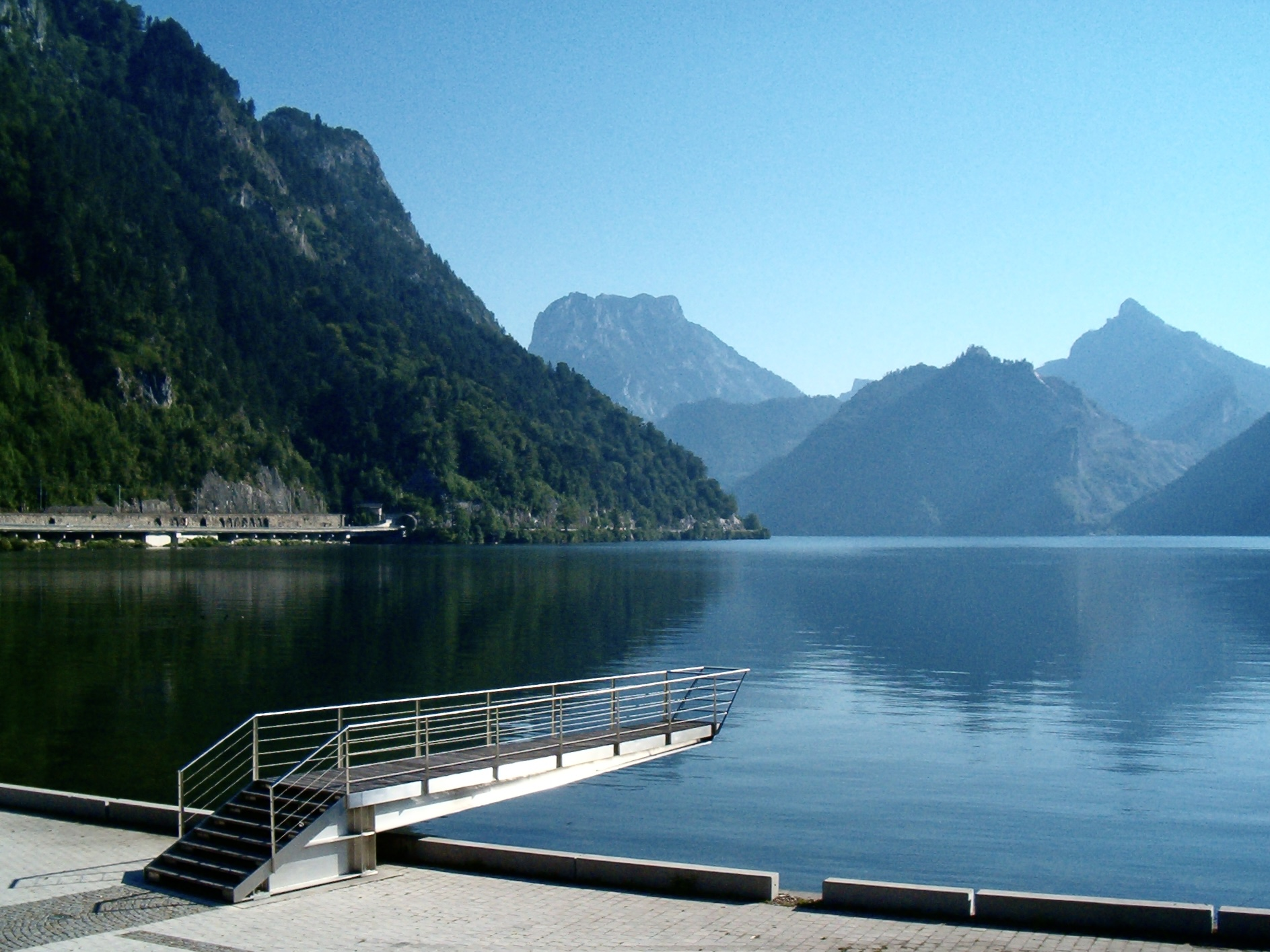 Town Ebensee - sight to the lake Traunsee, Austria.